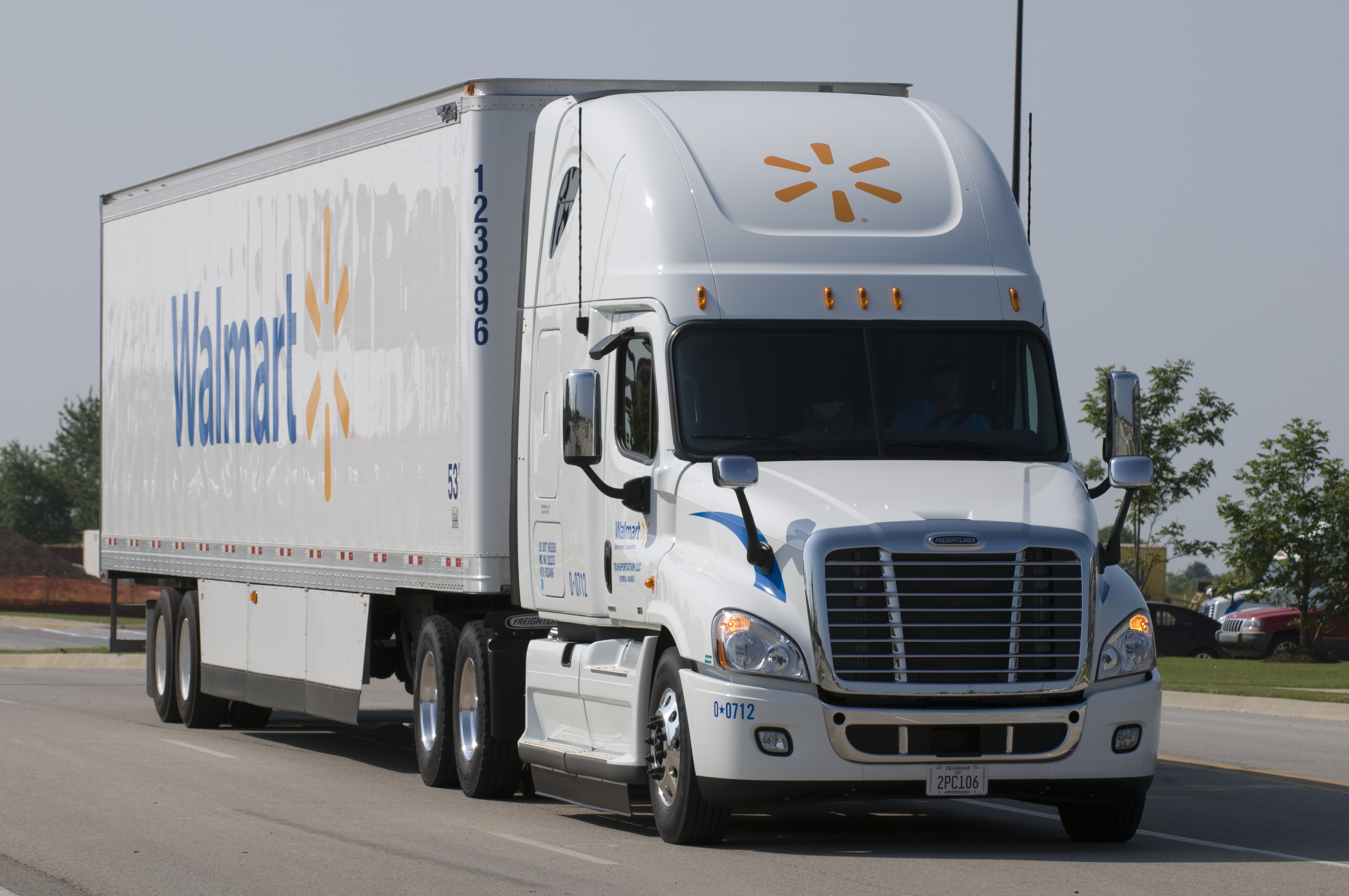 In addition to the more aerodynamic tractors in Walmart’s fleet, the company is also testing a number of aerodynamic features for its trailers including these side skirts.